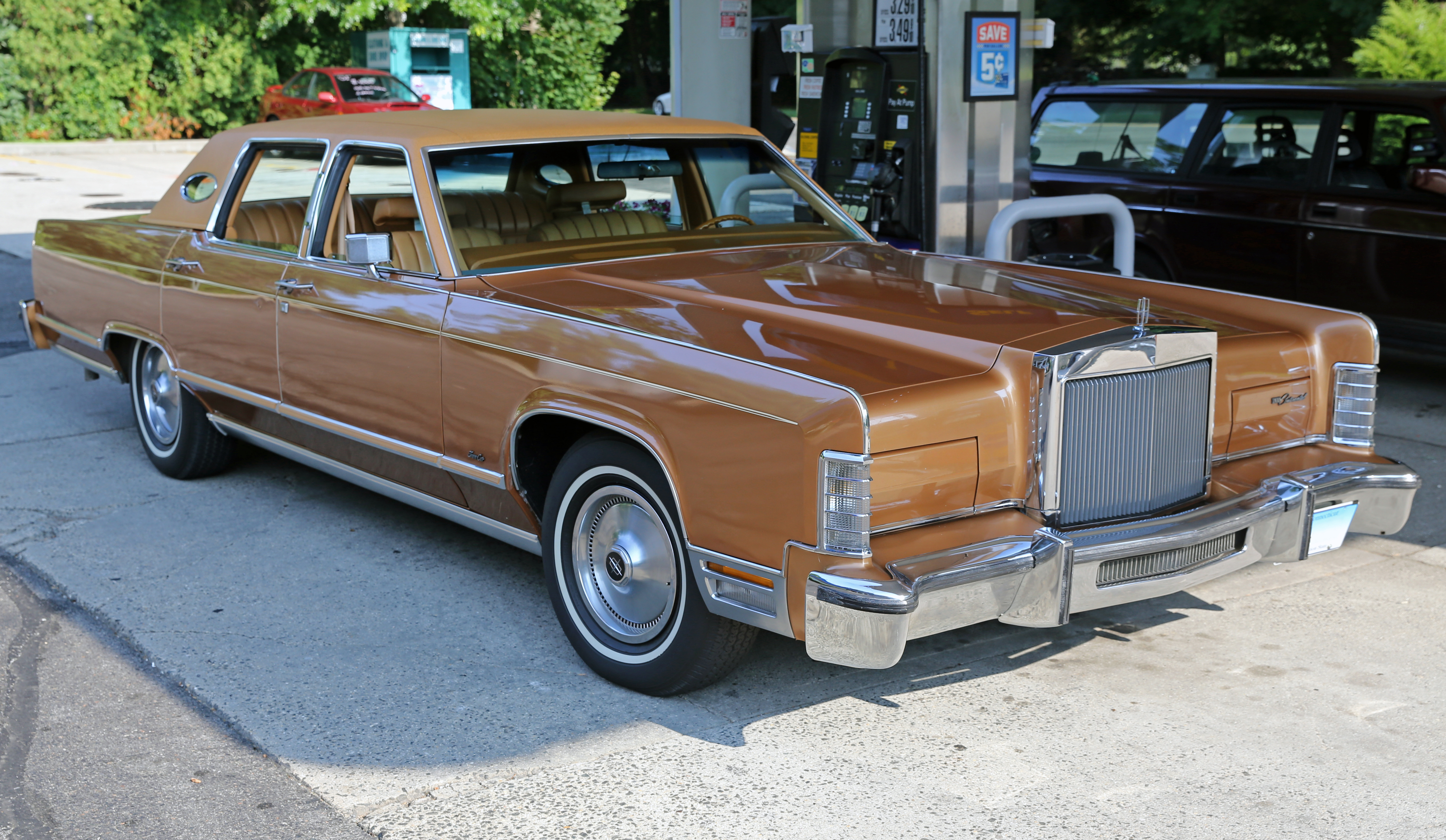 1978 Lincoln Town Car, from the last year that the 460ci V8 engine was available. Seen in its natural habitat - a gas station.